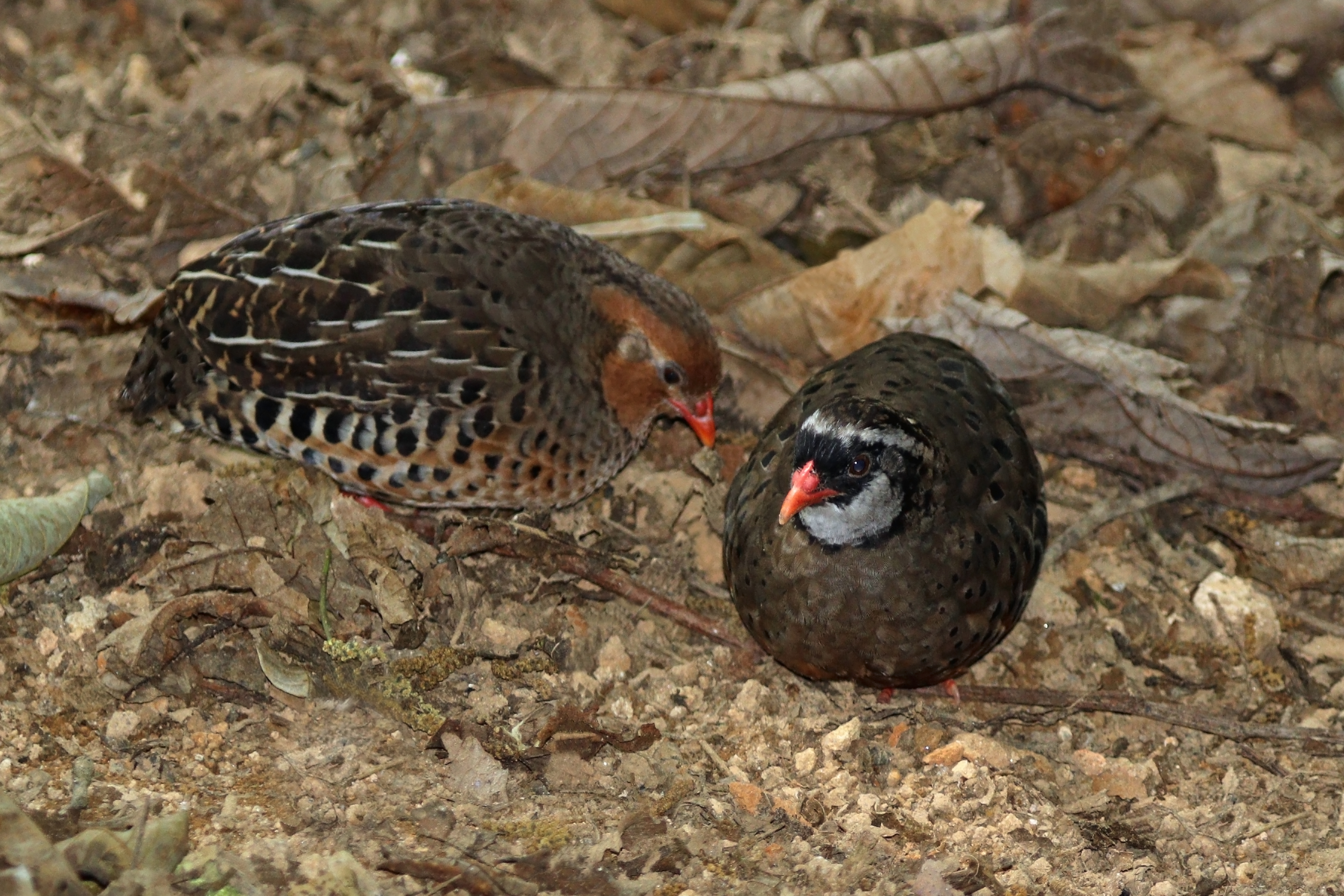 Painted bush quail (Perdicula erythrorhyncha) female (left) and male, Erevikulam NP, Kerala, India